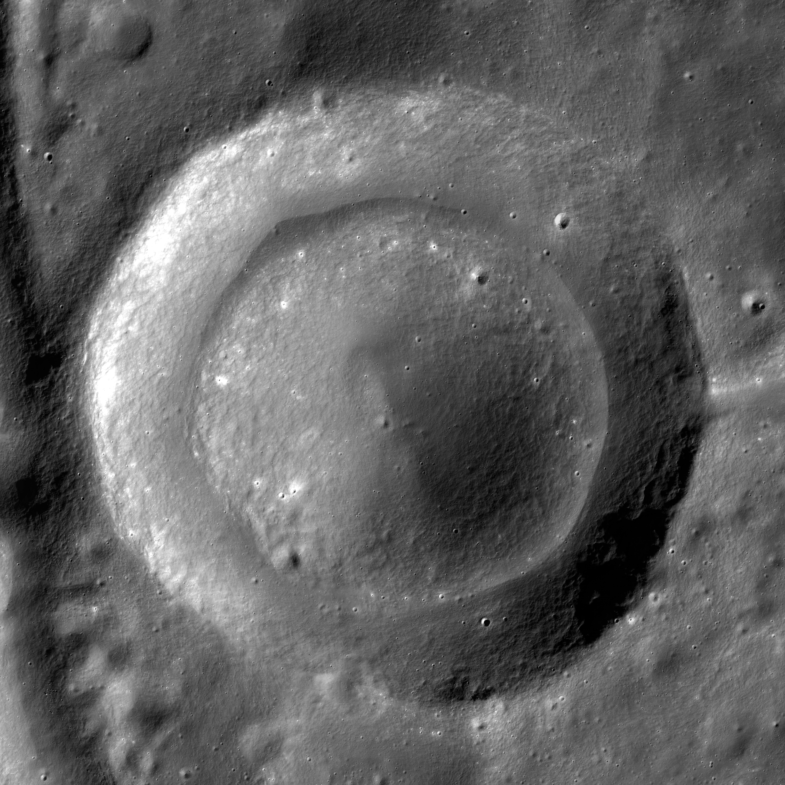 Concentric crater Repsold A on the Moon, to northwest from Oceanus Procellarum, in crater Repsold. Its diameter is 8 km. It is number 46 in the list of concentric craters by Wood, 1978. Photo by Lunar Reconnaissance Orbiter, made with Narrow Angle Camera on 1 November 2012 from altitude 166 km. Sun elevation is 24.5°. Width of the photo is 10 km, north is up.